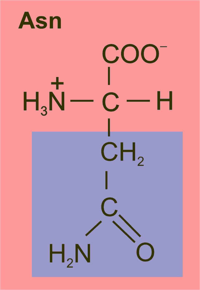 Asparagine amino acid formula jpg